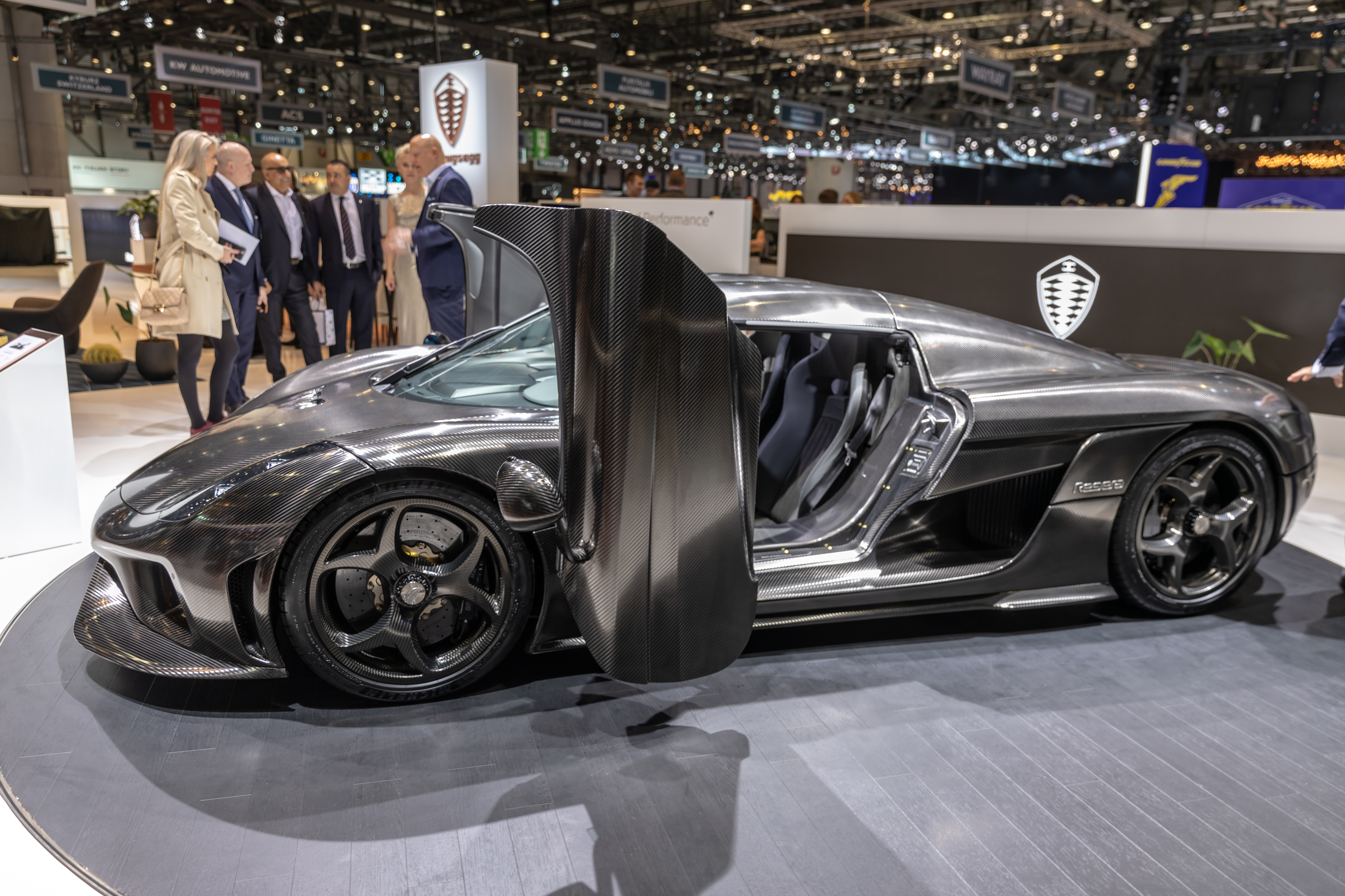 Koenigsegg Regera at Geneva International Motor Show 2019, Le Grand-Saconnex